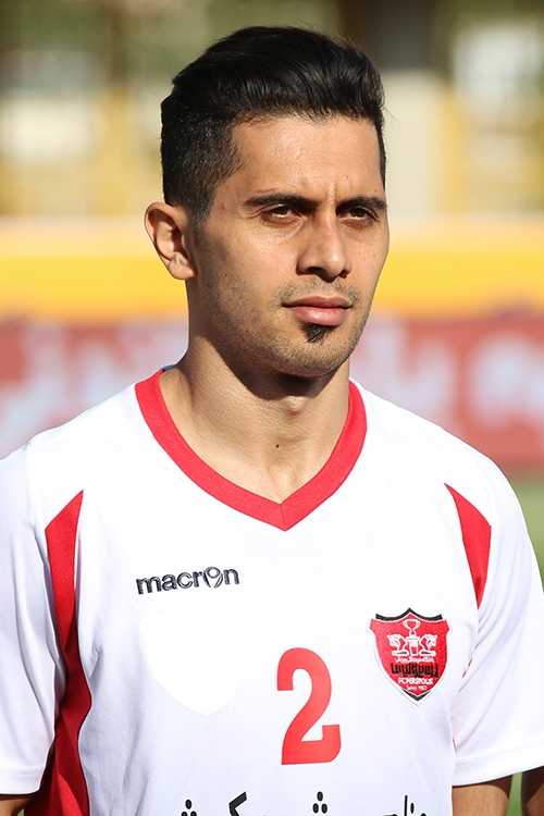 Omid Alishah in Persepolis